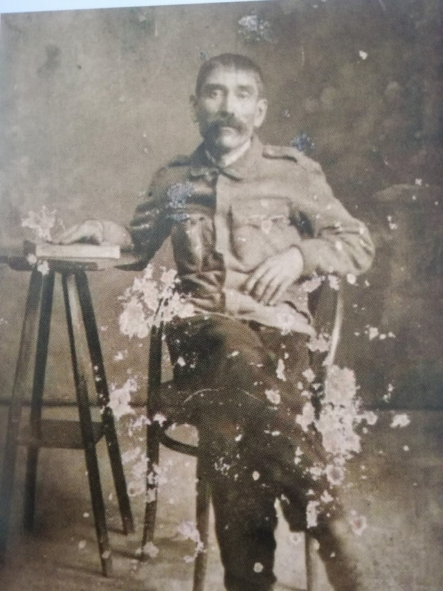 Luka Lazic, owner of the Lazic Library during the First World War and in the period between the two world wars.